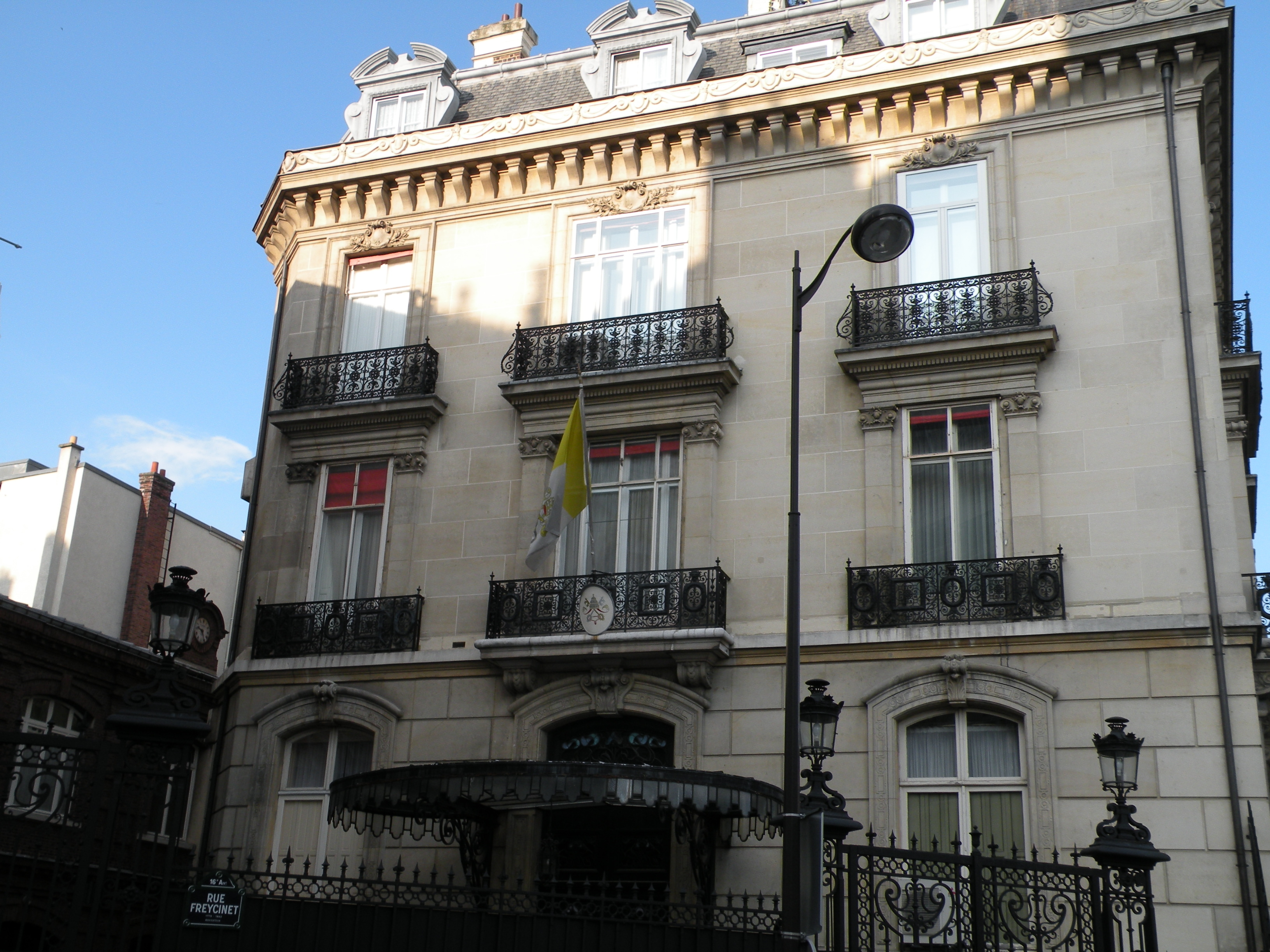 Apostolic Nunciature in France, Paris